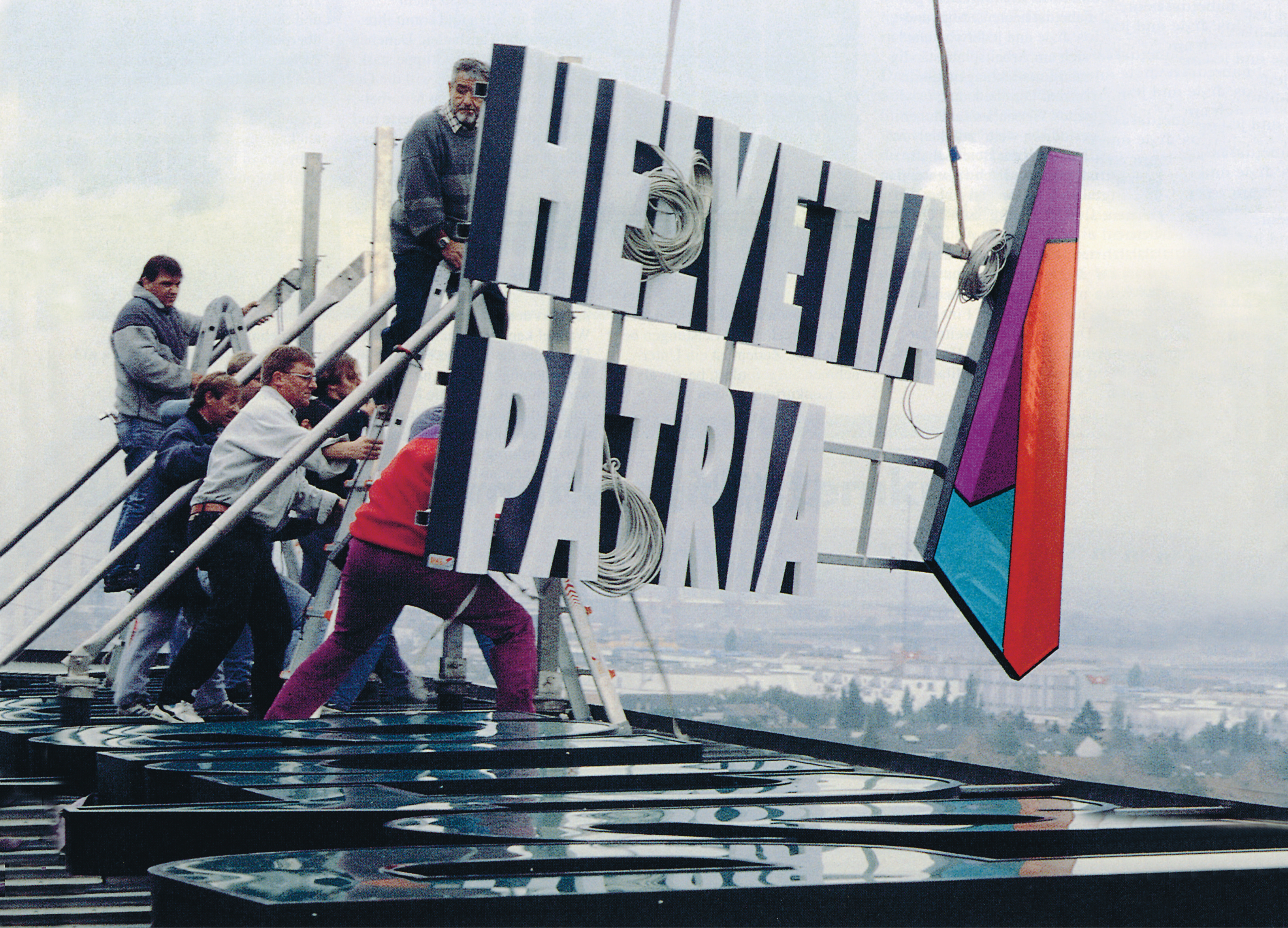 In 1992 Helvetia and Patria entered into a strategic alliance. Two years later the new logo is installed at the head office for Switzerland in Basel.